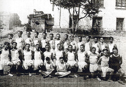 Kurtuluş SK - Tatavla Heraklis Gymnastics Club